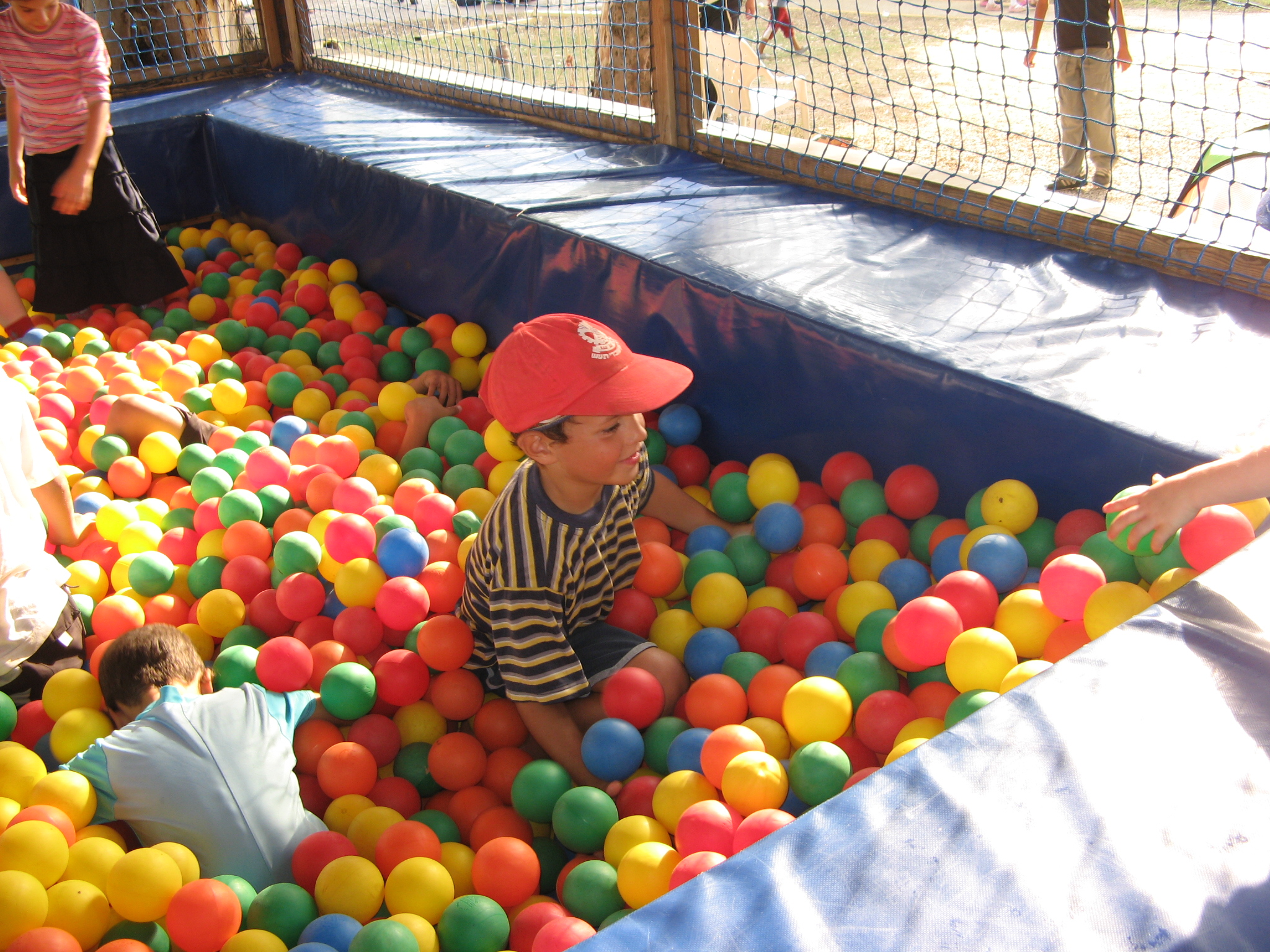 Children in ball pit in Nachshonit